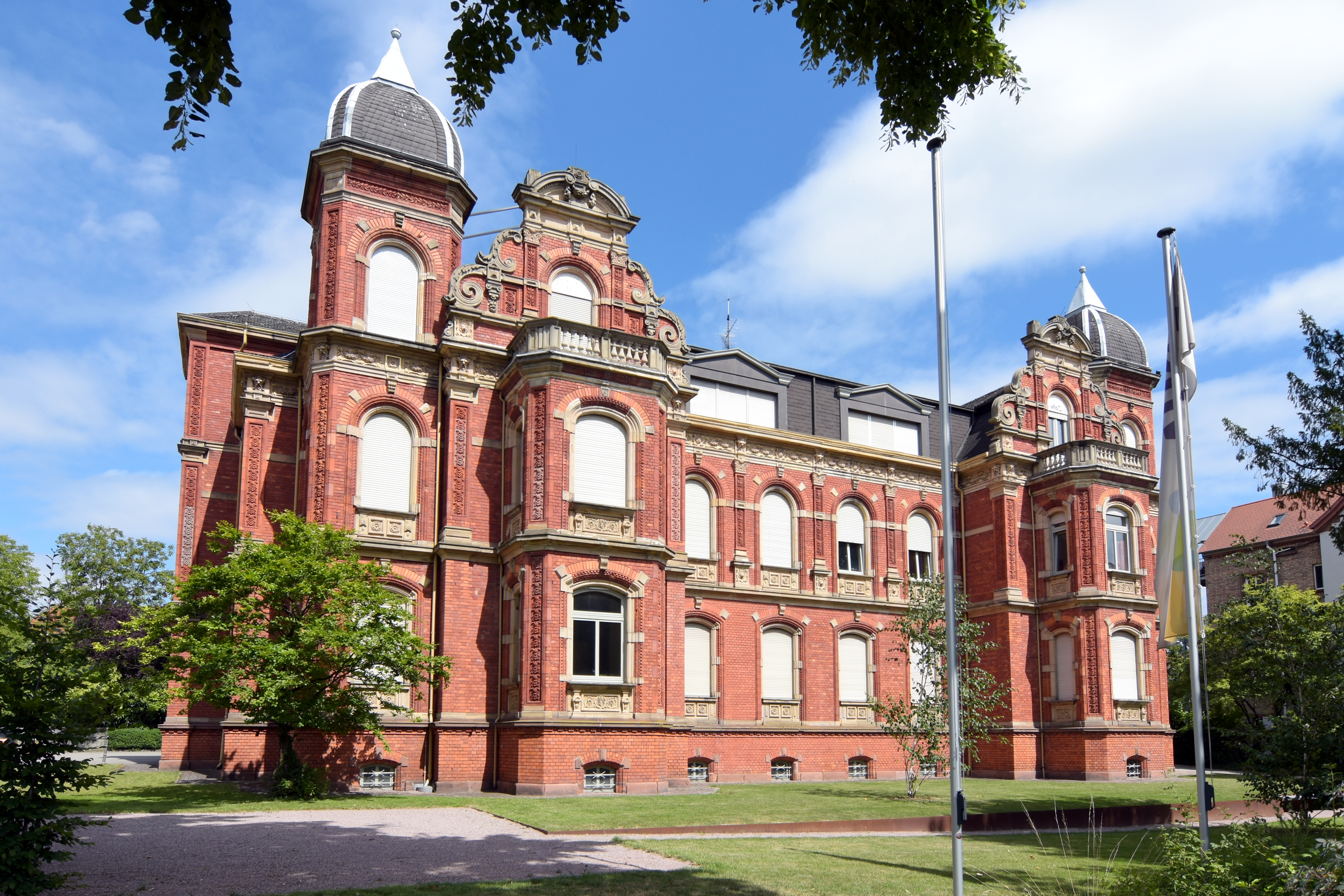 Speyer, Villa Ecarius